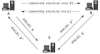 Man-in-the middle attack